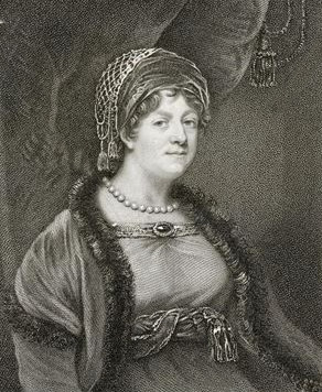 ANN ELIZA BRYDGES, duchess of BUCKINGHAM. slave owner and wife of Richard Temple Nugent Brydges Chandos Grenville, first duke 28 February 1812